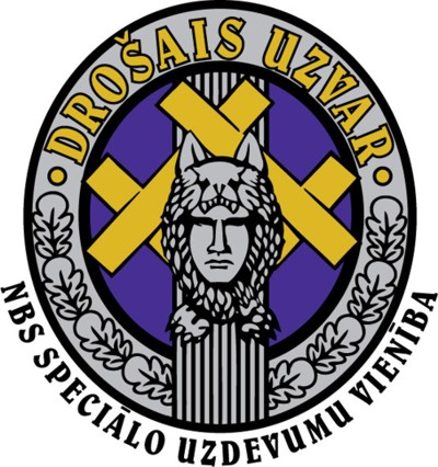 Latvian Special Tasks Unit logo.